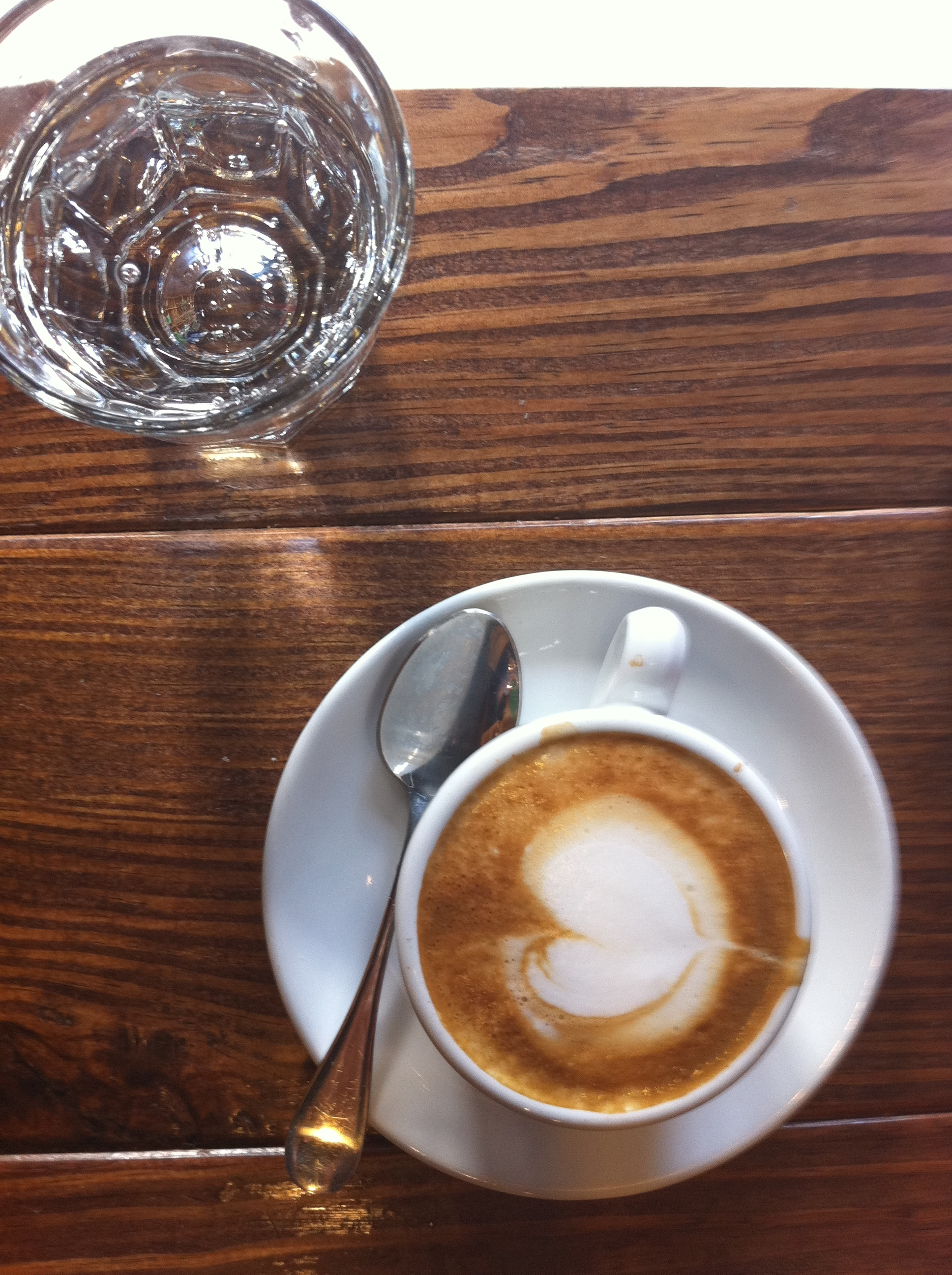 Macchiato (Papua New Guinea)